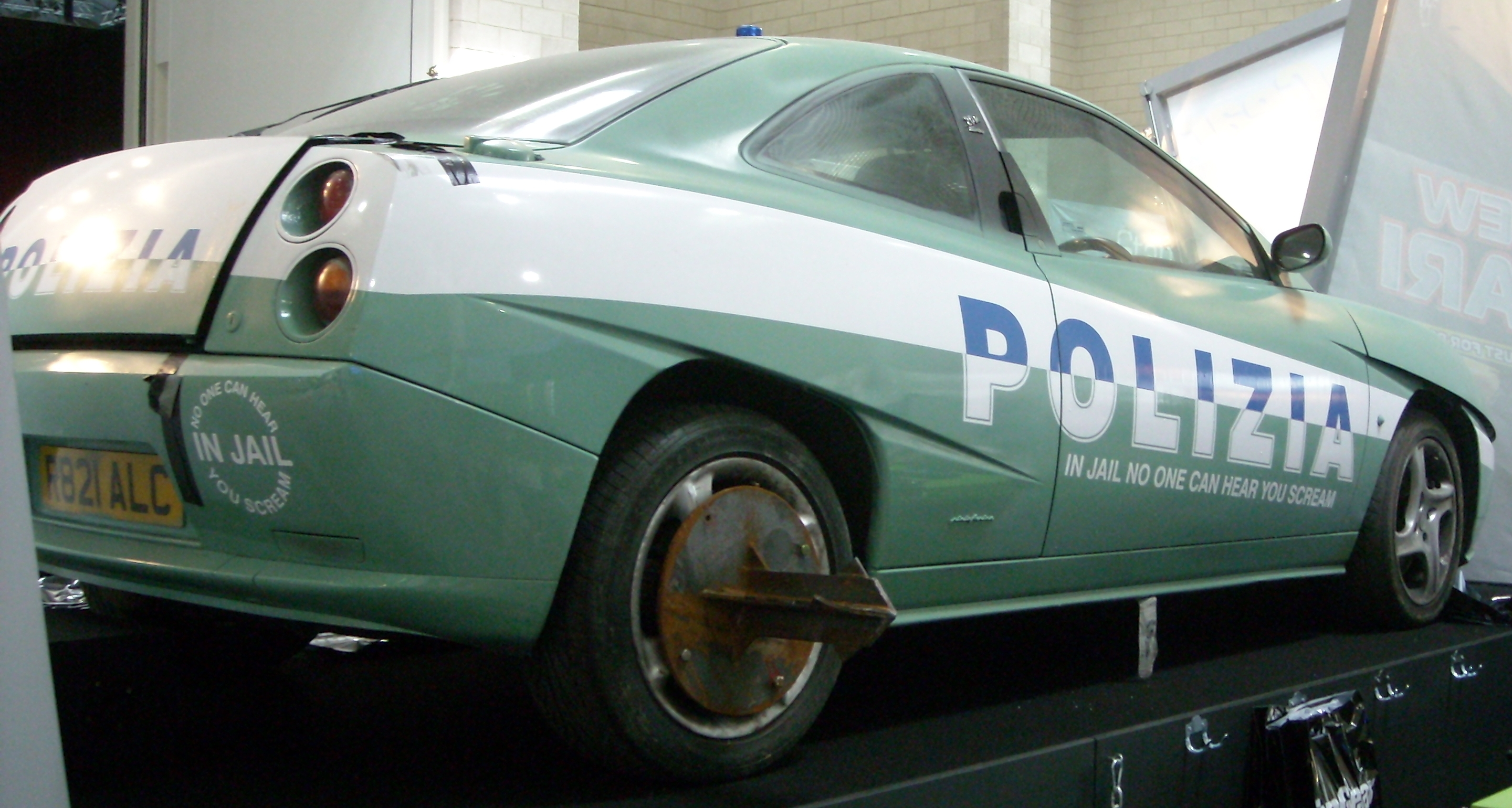 Jeremy Clarkson's Top Gear challenge to make a Police Car using a Fiat Coupé.